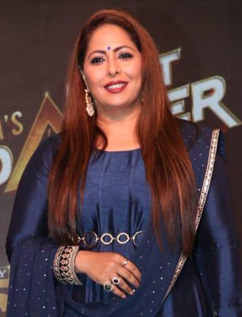 Choreographer Geeta Kapoor snapped on the set of India's Best Dancer